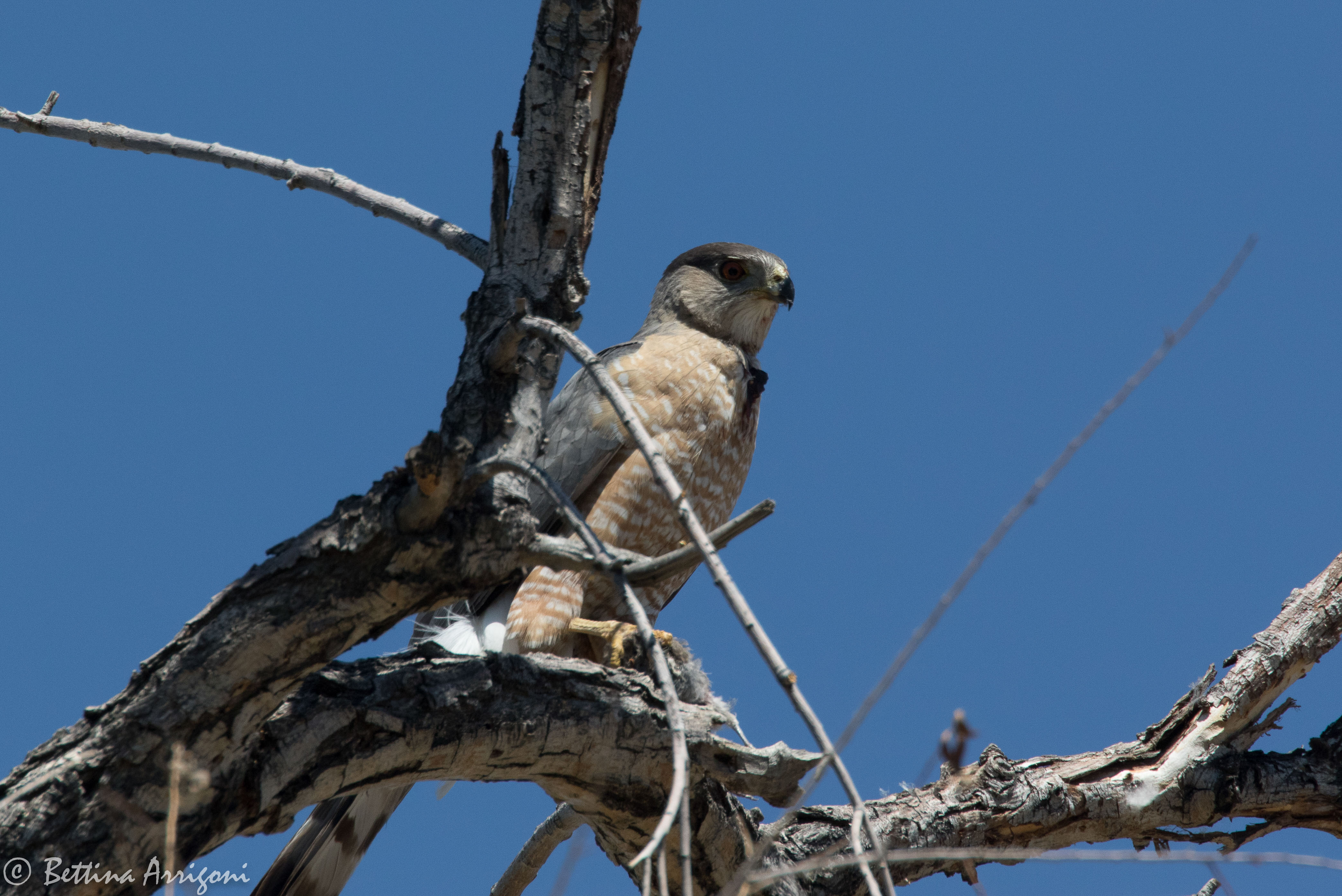 Cooper's Hawk (adult) | Sweetwater Wetlands | Tucson | AZ|2017-04-21|08-49-37.jpg